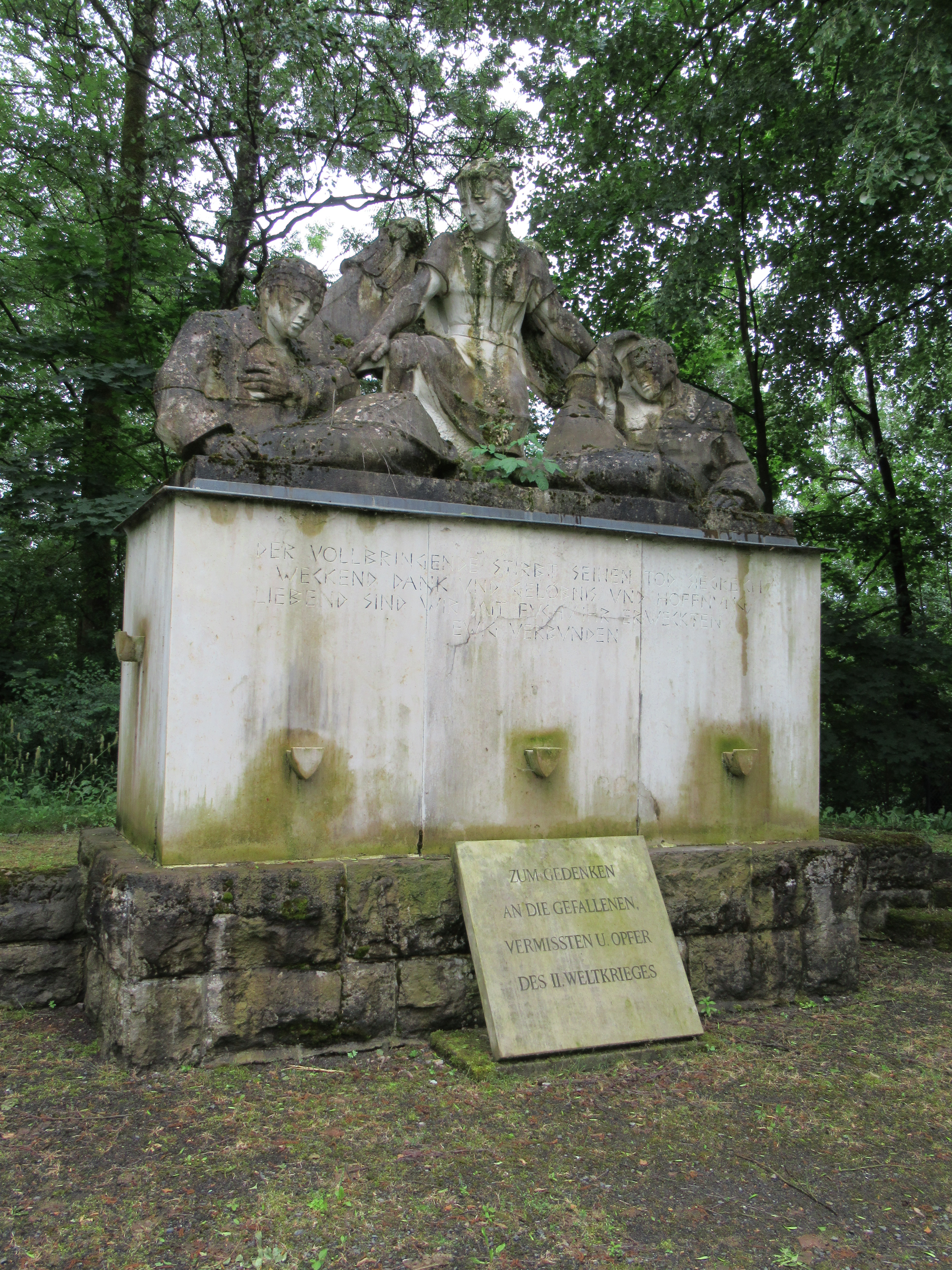 War memorial (1925) in Hildburghausen